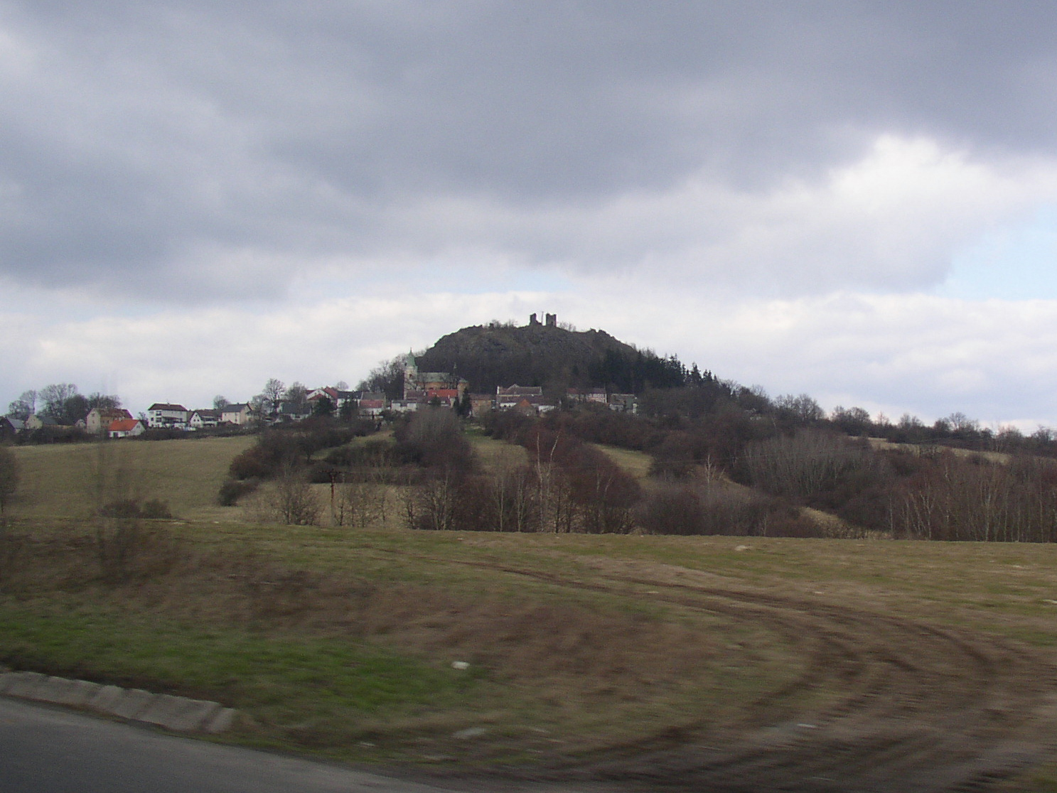 Castle ruin and village of Andělská Hora near Karlovy Vary, Czech Republic